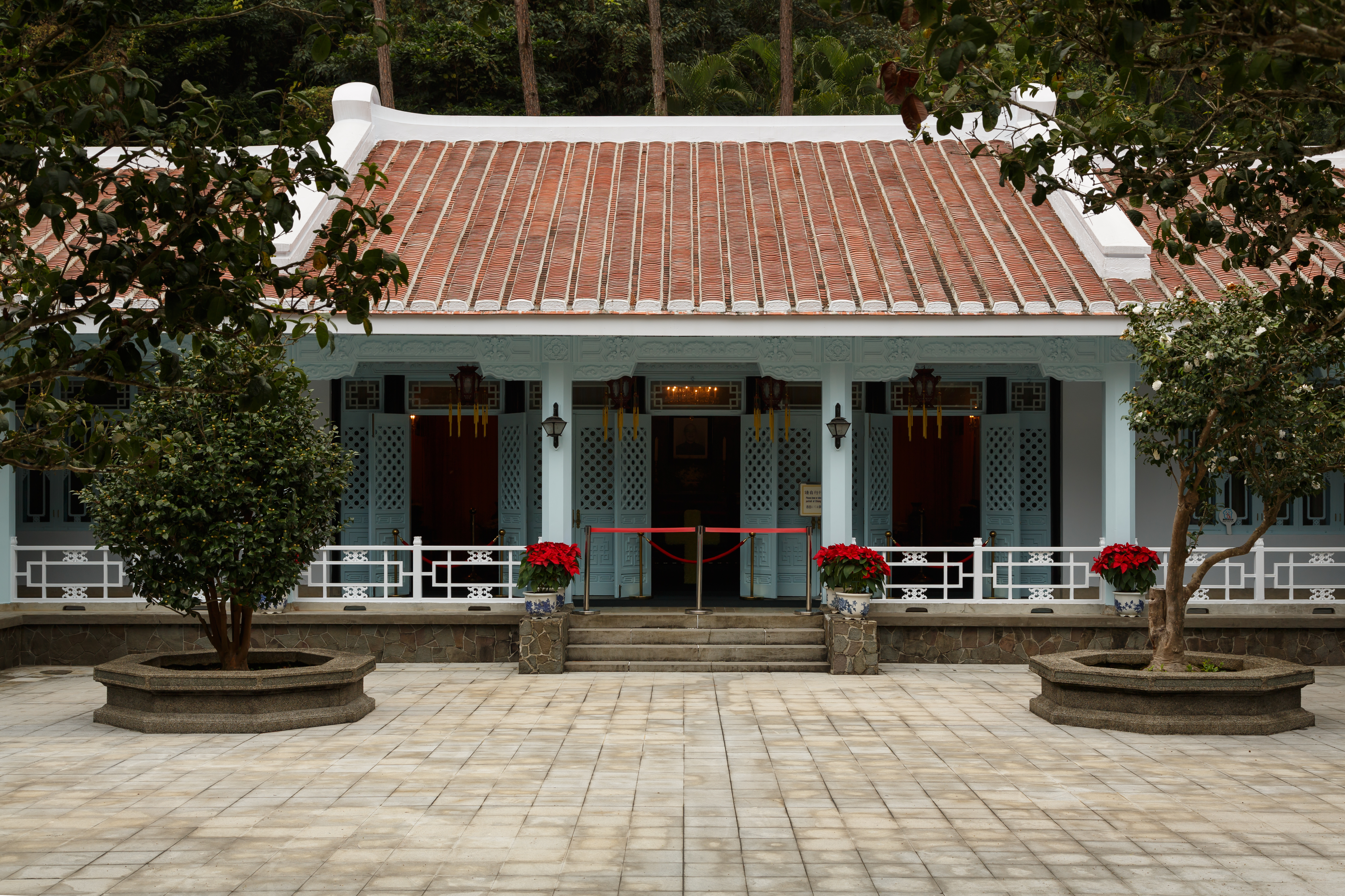 Cih-hu, Taiwan: Courtyard of Chiang Kai-Sheks Recidence. His sarcophagus is placed inside the house.